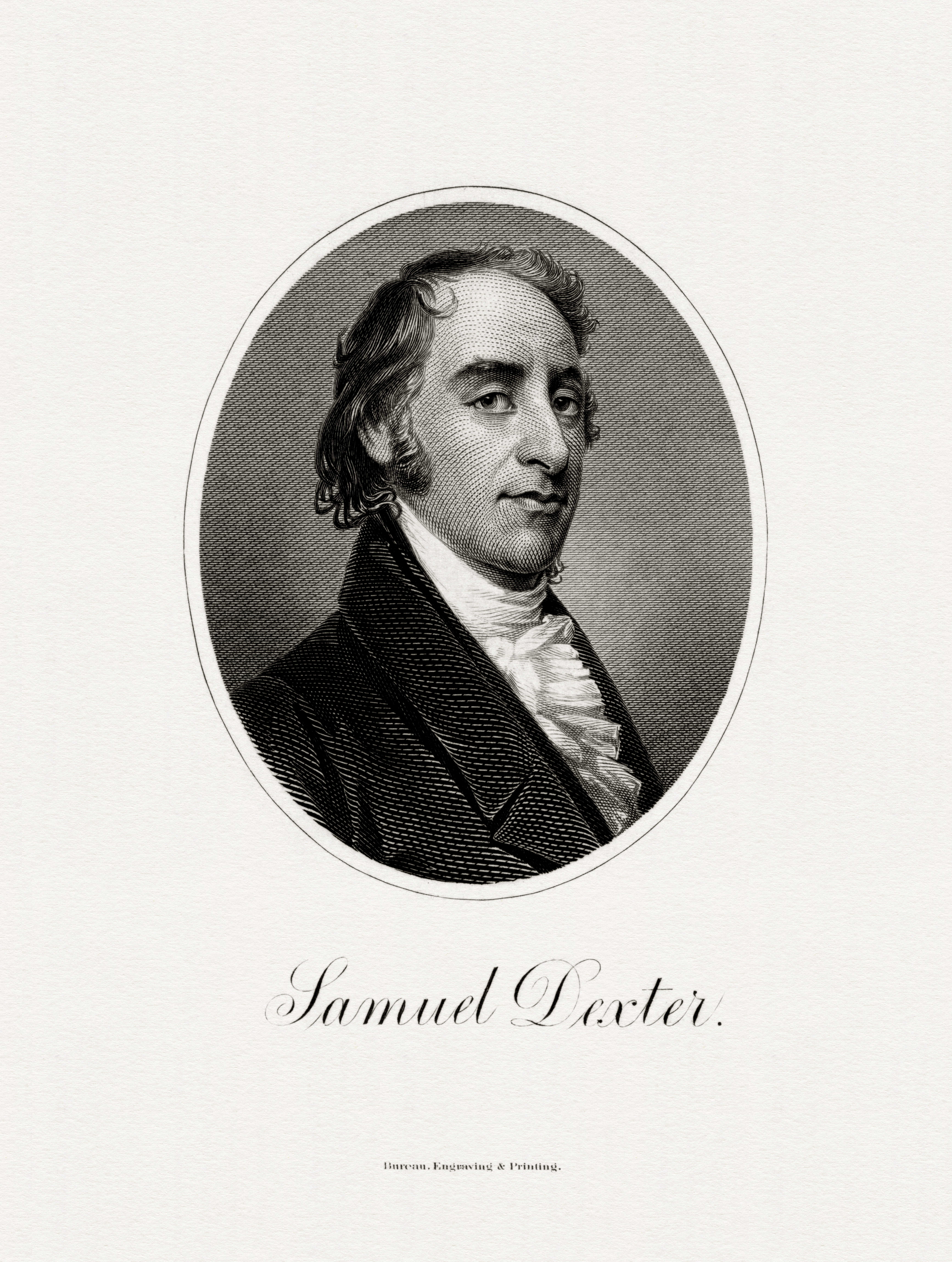 Engraved BEP portrait of U.S. Secretary of the Treasury Samuel Dexter